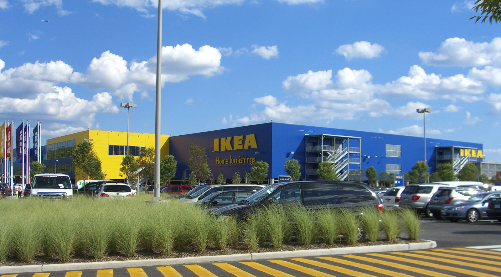 The Ikea store in Red Hook, Brooklyn.